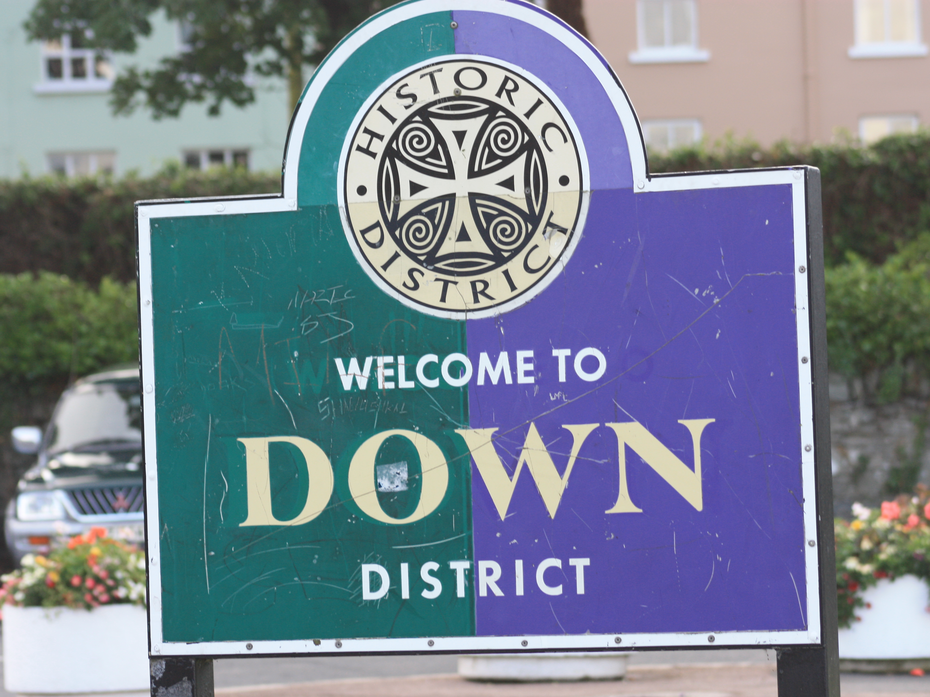 Sign in Strangford, County Down, Northern Ireland, August 2009